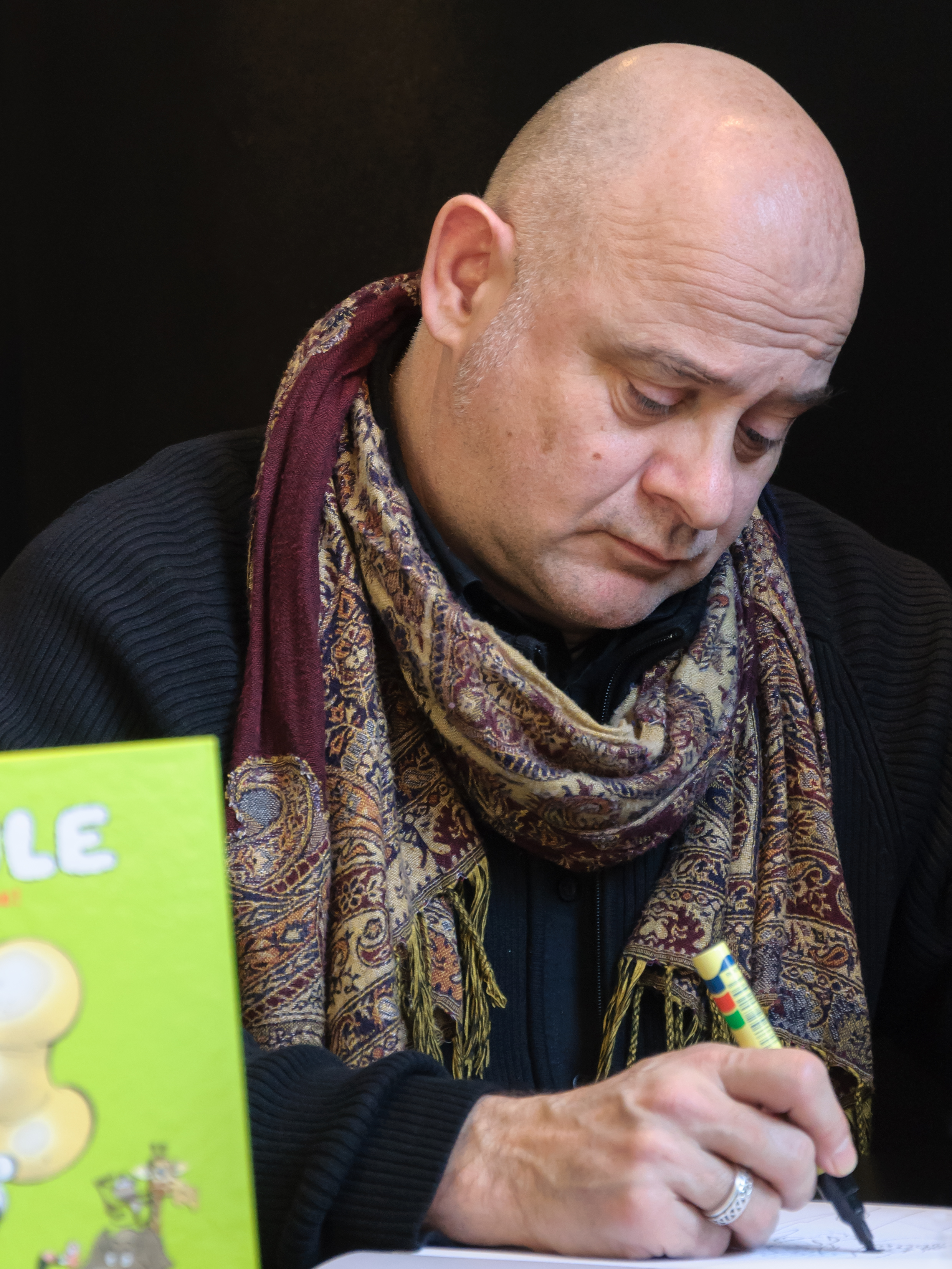 Michel Rodrigue, at the 40th Angoulême International Comics Festival, 2013.